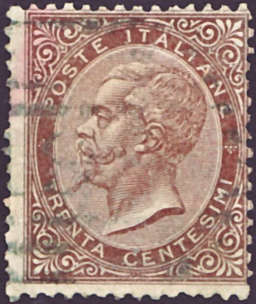 Stamp of the Kingdom of Italy; 1863; definitive stamp with portrait of the King Victor Emmanuel II of Italy in standing oval; postmarked Stamp: Michel: No. 19; Yvert et Tellier: No. 18 Color: dark brown red to brown Watermark: Italy No. 1 (crown) Nominal value: 30 Centesimi Postage validity: from 1 December 1863 until 31 December 1899 Stamp picture size (printed area): 19.0 x 22.0 mm